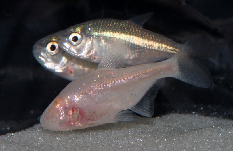 Two epigean Mexican tetras (Astyanax mexicanus) and their eyeless unpigmented cave-dwelling relative.